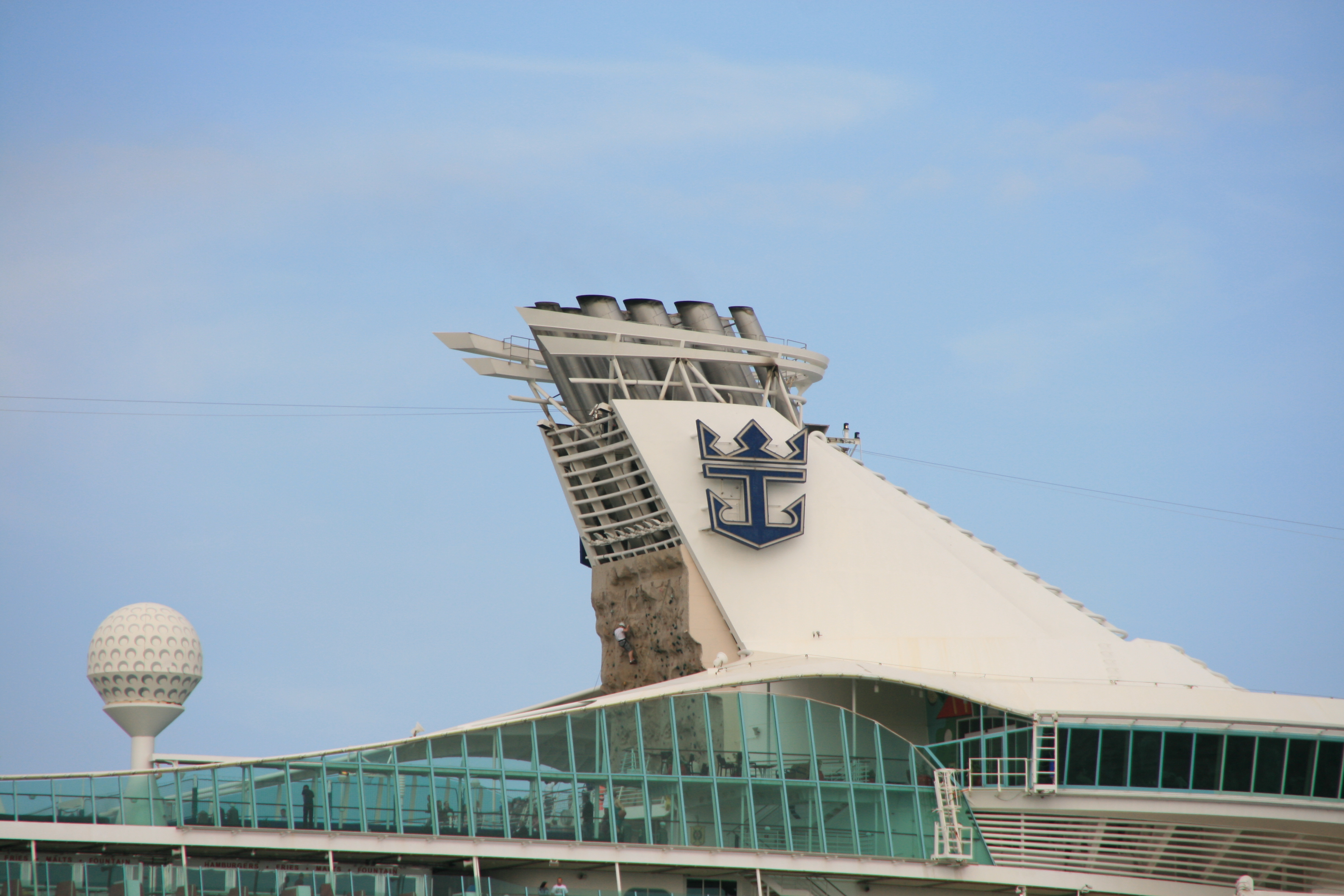 Rock climber on the climbing wall of the 137,276 gross tonnes Voyager-class cruise ship Adventure of the Seas outward bound from Southampton 5 May 2013.